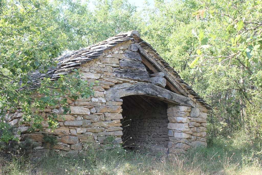 Caseta rural Lecina